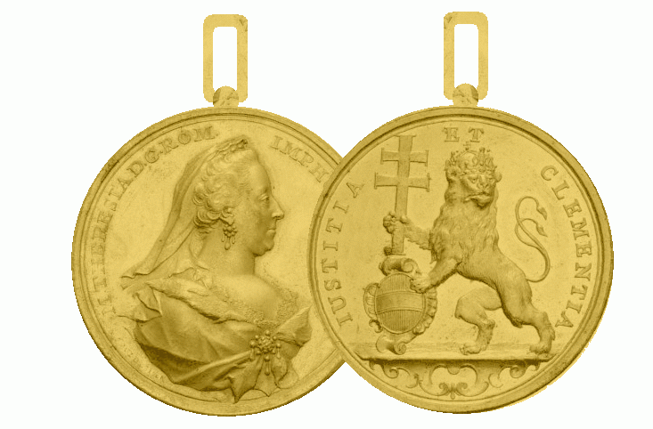 Medaille mit dem Allerhöchsten Wahlspruch rund 1770